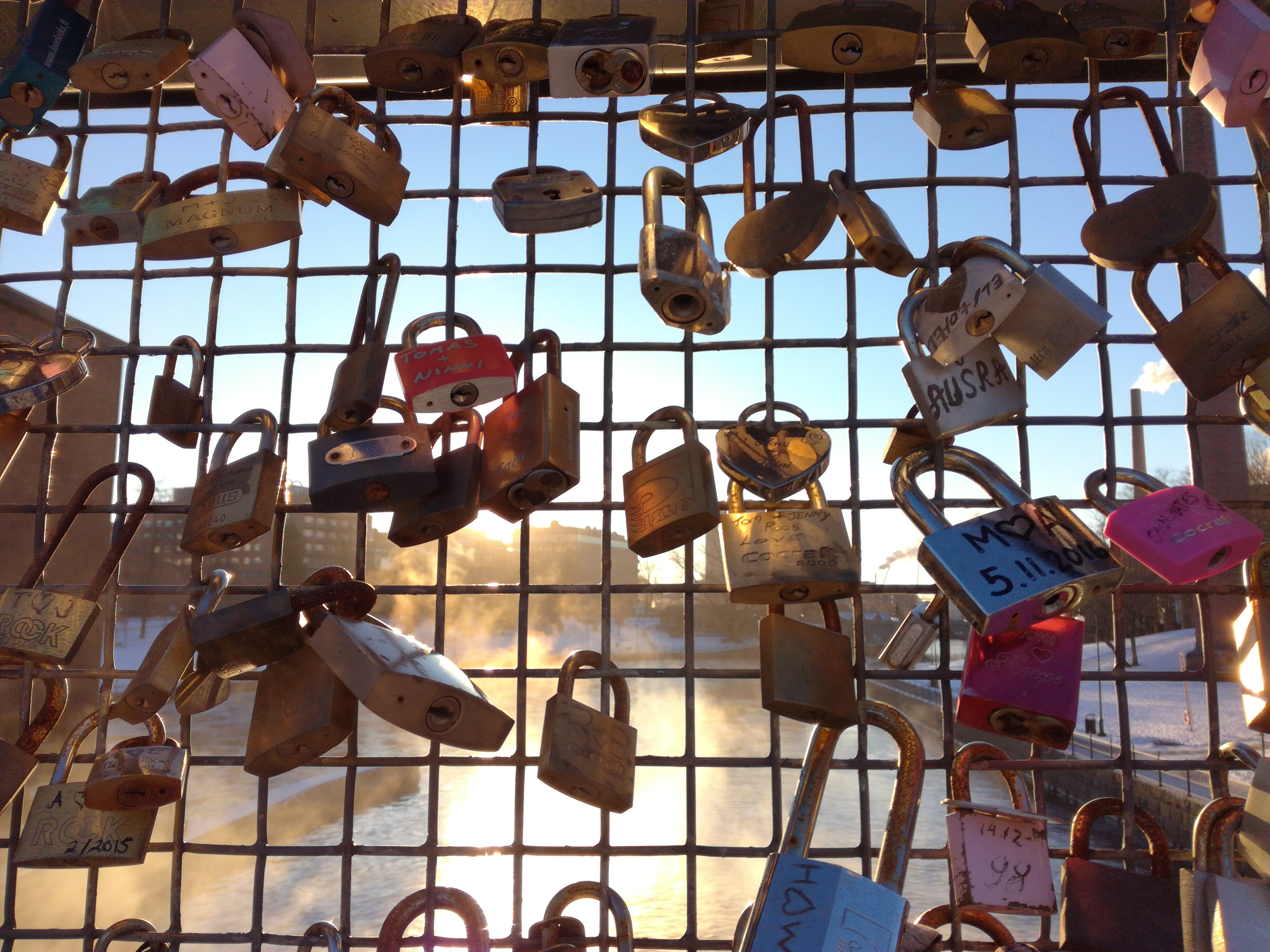 A tradition in Tampere, Finland is for couples to place locks on a pedestrian bridge over Tammerkoski.